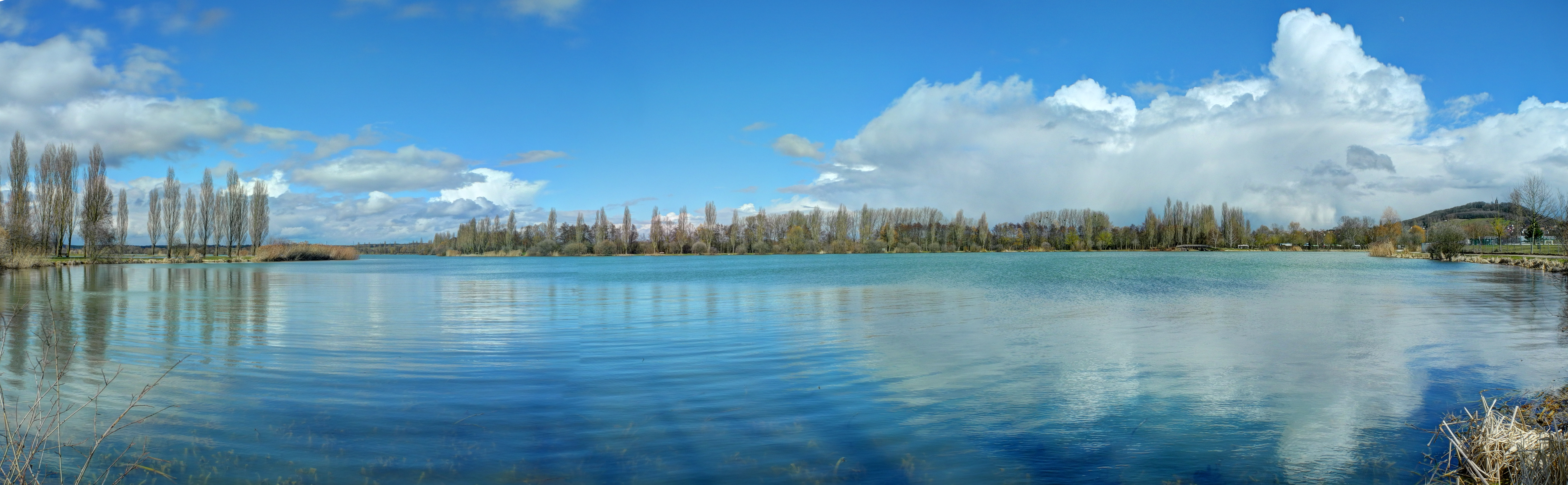 NOTE: This image is a panorama consisting of multiple frames that were merged or stitched in software. As a result, this image necessarily underwent some form of digital manipulation. These manipulations may include blending, blurring, cloning, and colour and perspective adjustments. As a result of these adjustments, the image content may be slightly different from reality at the points where multiple images were combined. This manipulation is often required due to lens, perspective, and parallax distortions. Lac de Vesoul - Vaivre : panorama (HDR).